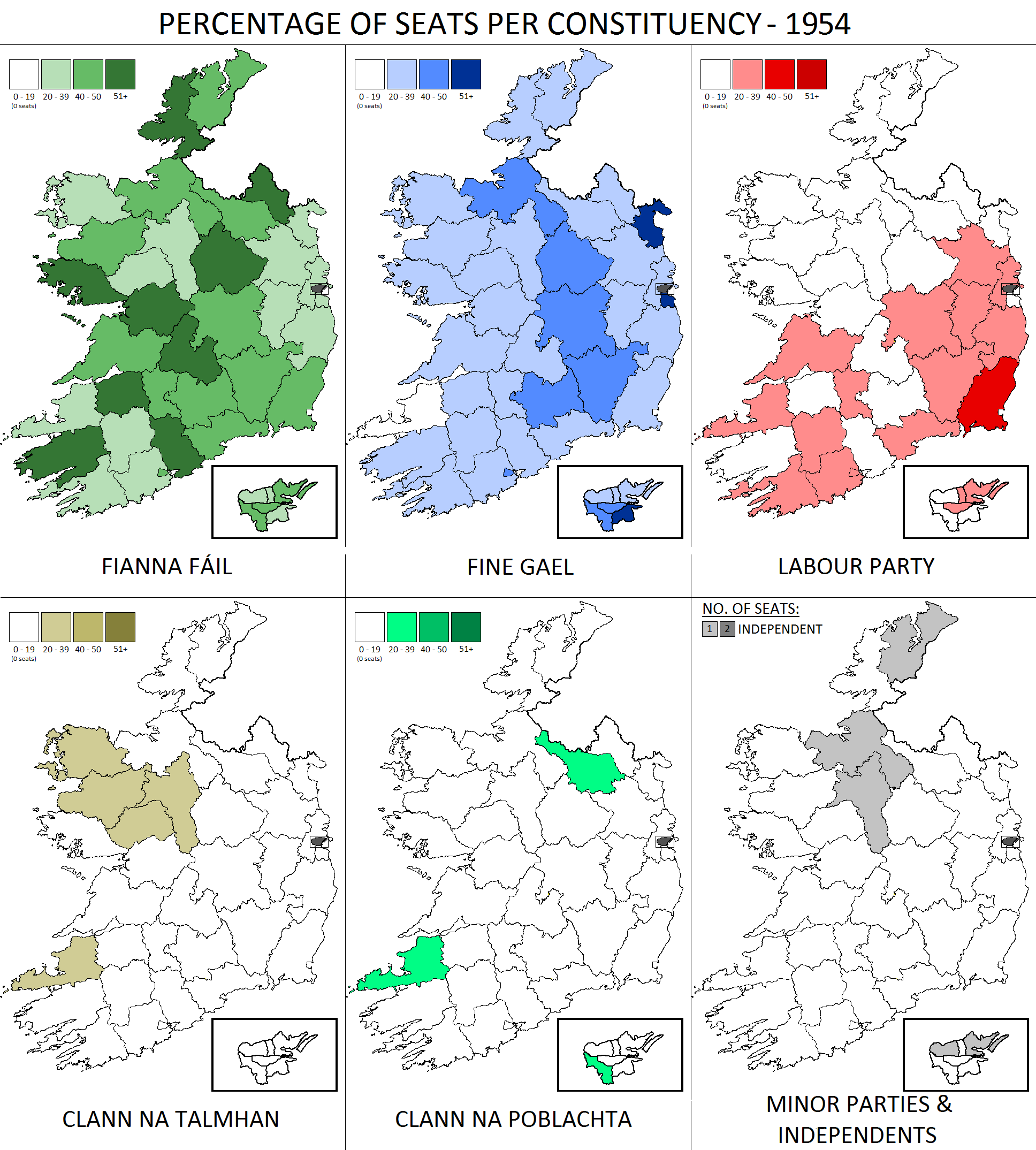 Graphical representation of the 1954 Irish general election results. Created by myself using data from Wikipedia and literary sources.